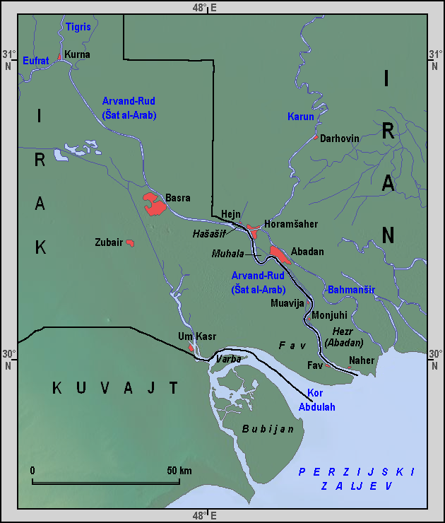 Map of the Arvand-Rud or Shatt al-Arab river — the southern border of western Iran with eastern Iraq with Croatian map descriptions.